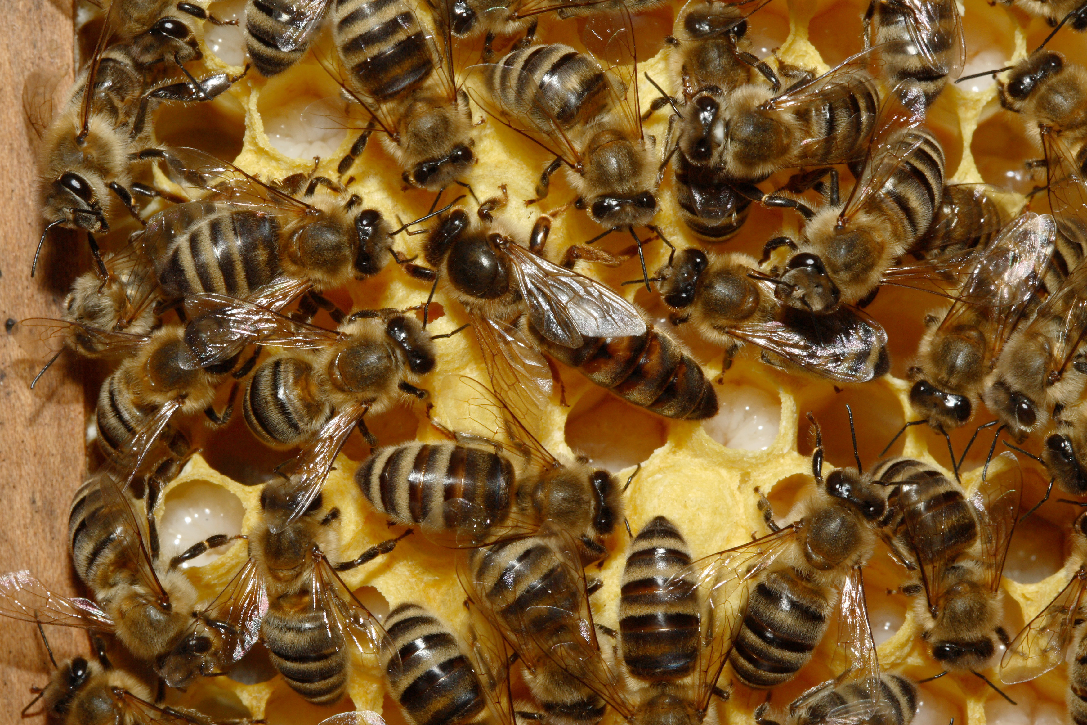 The queen bee in a hive.